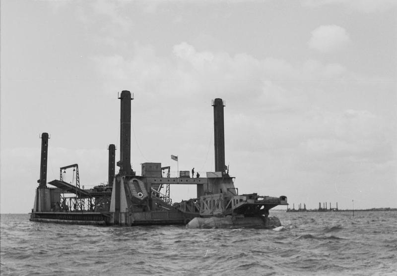 The Mulberry Harbour Construction in Britain: A Spud pierhead unit parked awaiting D Day. These were fitted with legs to enable adjustments to be made according to the state of the tide.